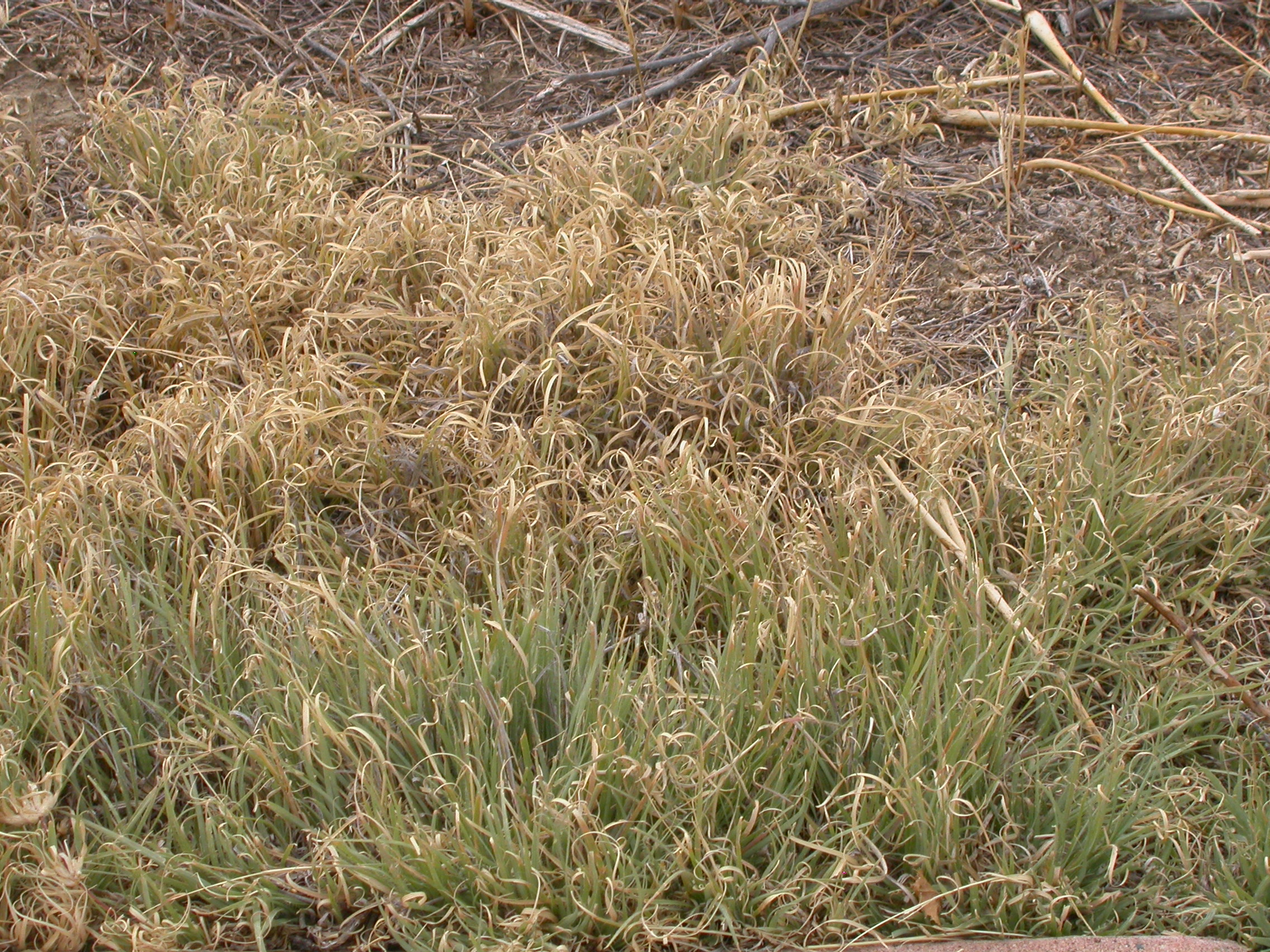 Buchloe dactyloides (syn. Bouteloua dactyloides) - Buffalo grass - is the mat-forming habit with hairy curly leaf blades is characteristic of this species. It is used as a drought tolerant 'lawn' garden plant in temperate North America.